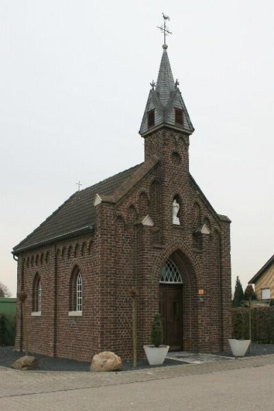 Cultural heritage monument No. 42 in Selfkant